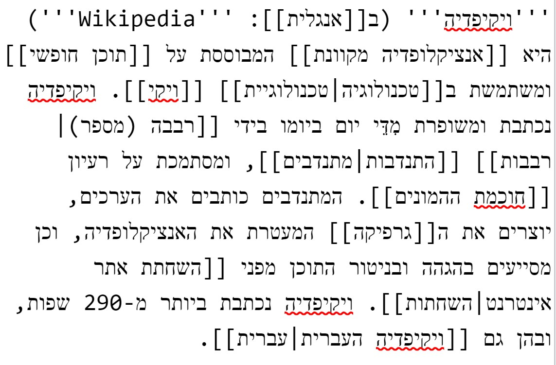 First hewiki paragraph in editor with chrome spell checker on